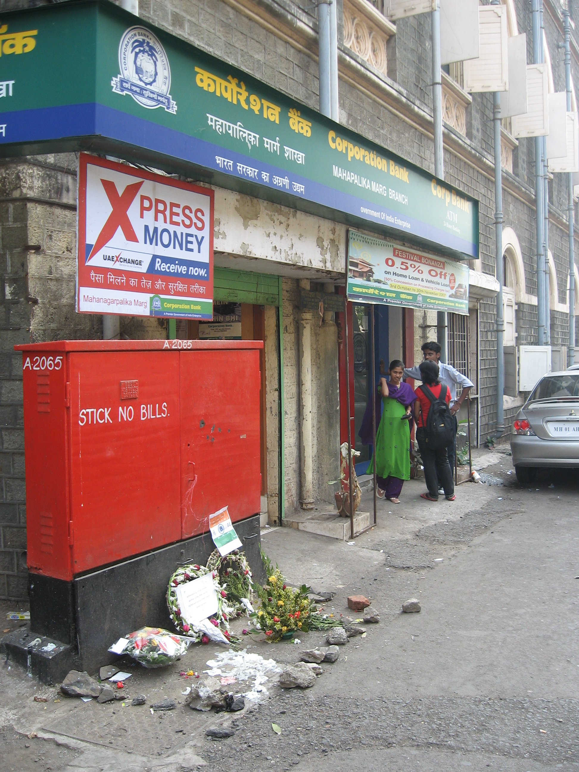 The location of the spot where police officers Hemant Karkare, Ashok Kamte, Vijay Salaskar were gunned down by terrorists during the November 2008 Mumbai attacks